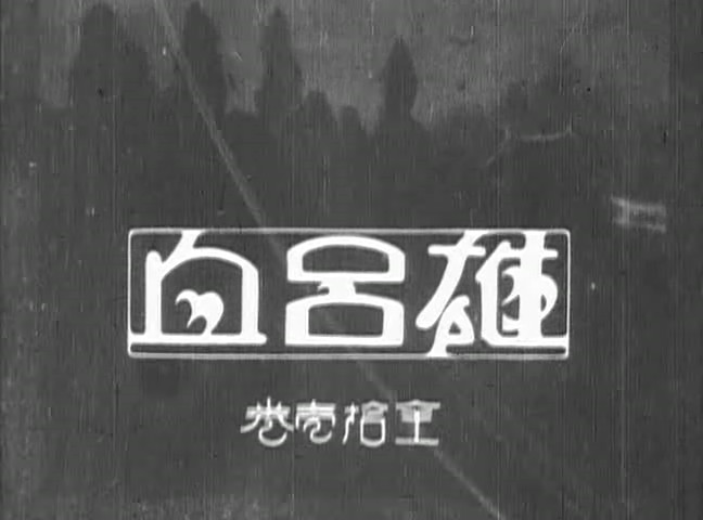 Orochi